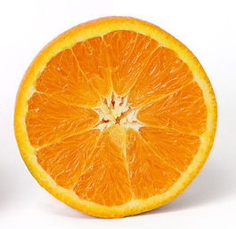 This image is a part of the one uploded by User Fir0002 on 22. January, 2009